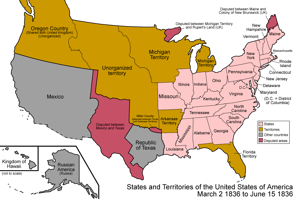 Map of the states and territories of the United States as it was from March 1836 to June 1836. On March 2 1836, the Republic of Texas achieved independence from Mexico, though large portions remained disputed. On June 15 1836, Arkansas Territory was admitted as the state of Arkansas.